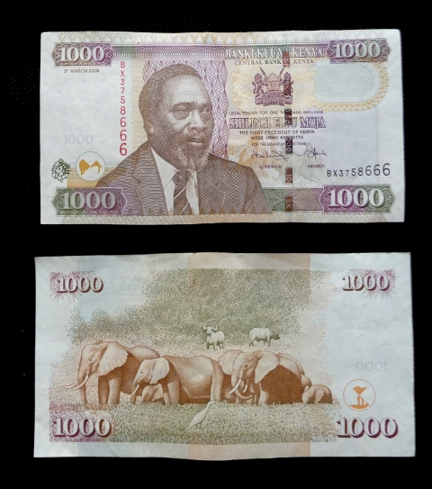 1000 Kenyan shilling note.